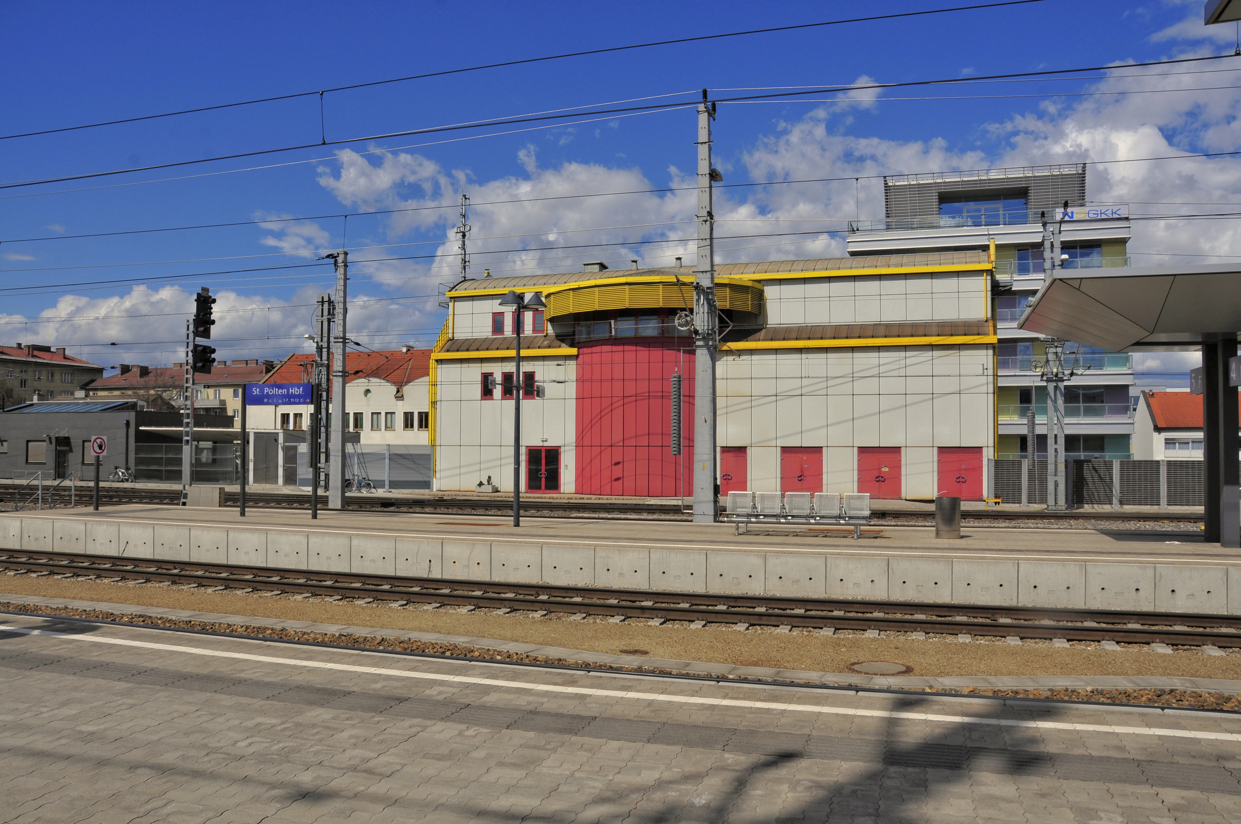 St. Pölten, Austria, Main Train Station Fotowanderung St. Pölten 13. April 2013 in St. Pölten, Niederösterreich 50mm • Allgemeines • Bahnhof • Domplatz • Fahrräder • Landhausviertel • Rathausplatz